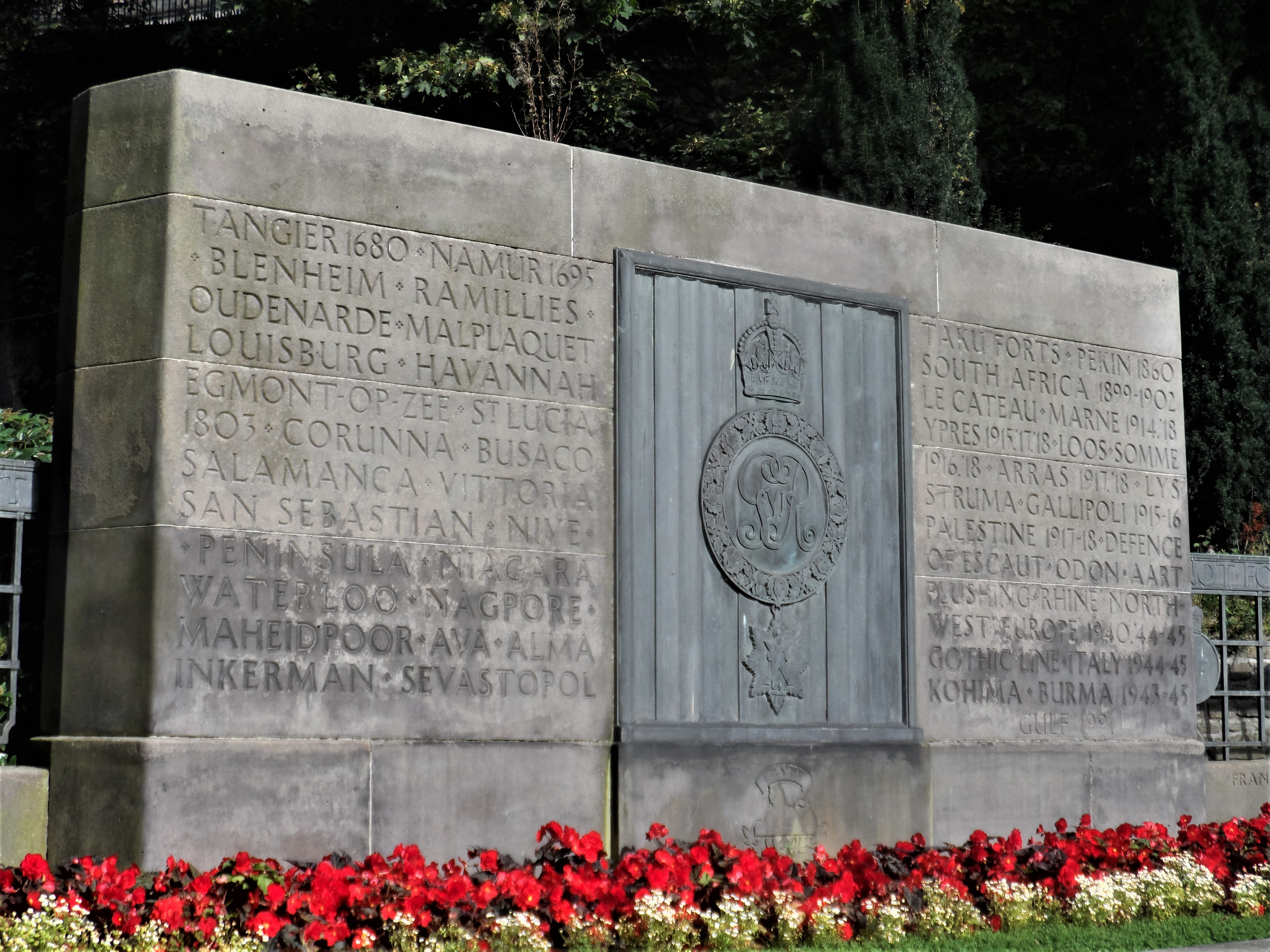 Scots Guards memorial